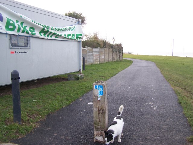 National Cycle Route 15 to Reculver This cycle path known as 'The Viking Trail' leaves Hengist Road Car park, then follows coastal route on sea wall promenade to Reculver Towers.